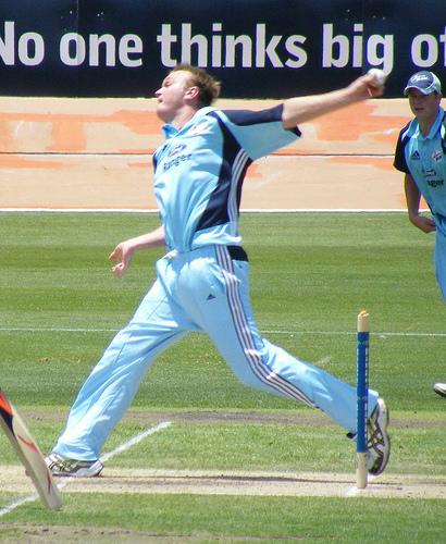 Ed Cowan